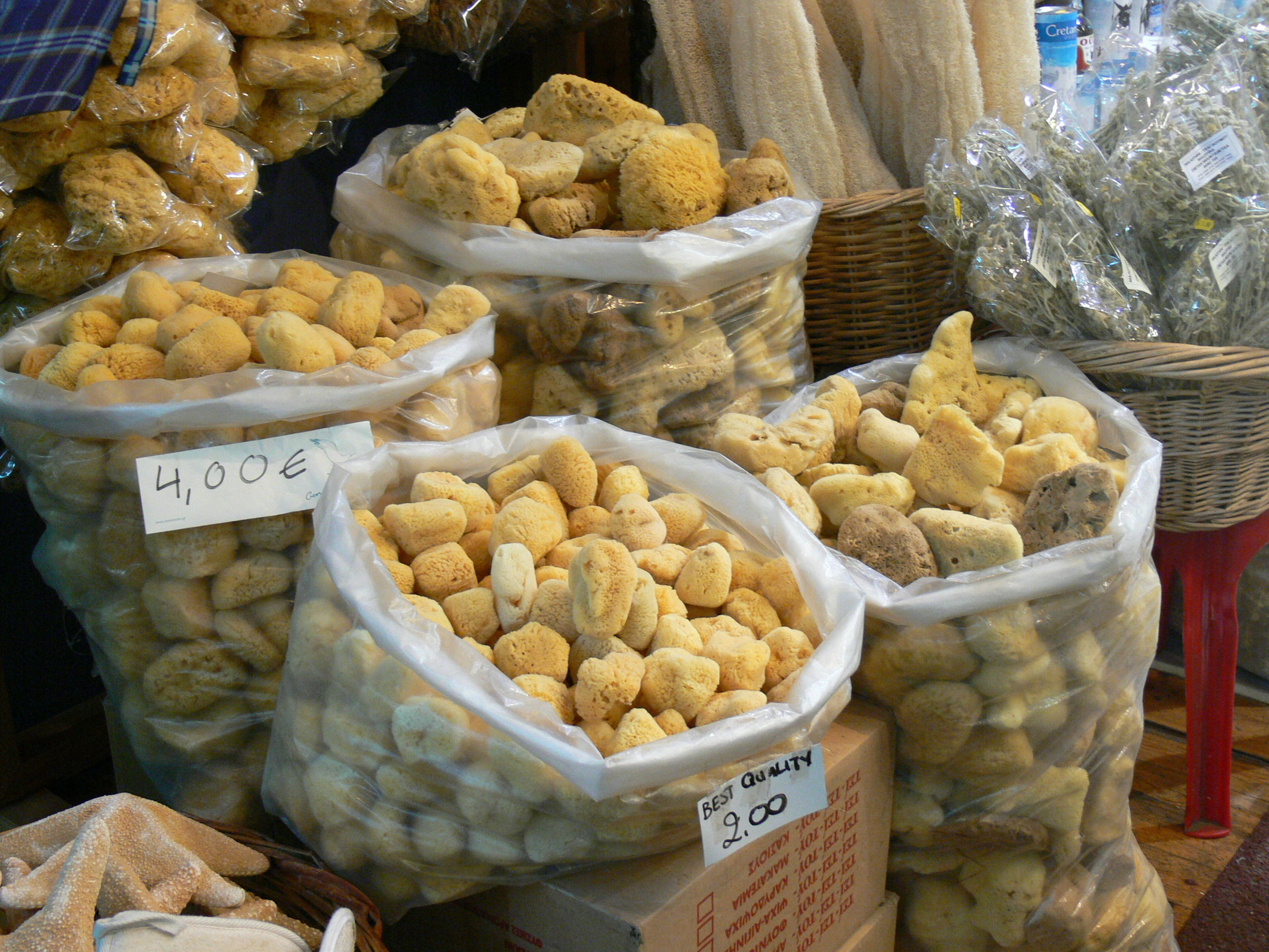 Market hall of Chania ( Crete ). Sponges on sale.